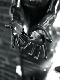 Example work by American photographer Steve Diet Goedde